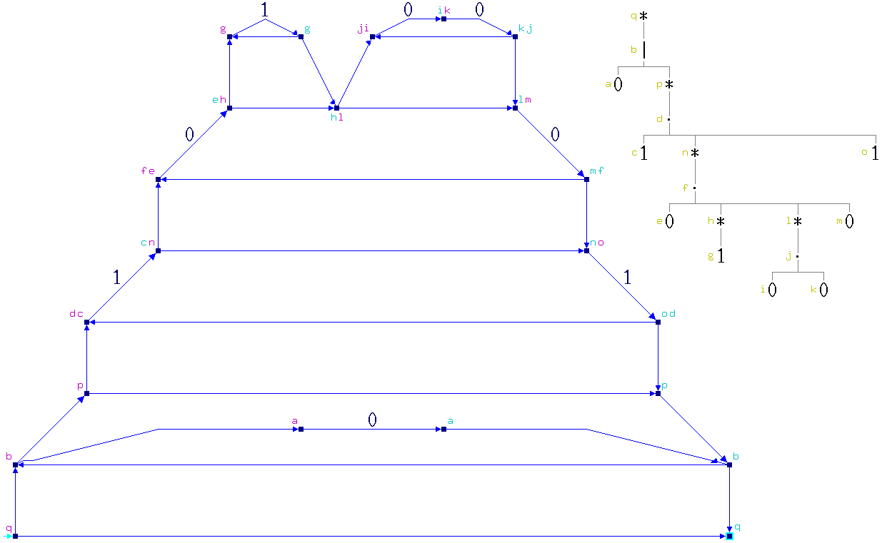 Thompson's construction algorithm applied to the regular expression (0|(1(01*(00)*0)*1)*)* that denotes the set of binary numbers that are multiples of 3: { ε, "0", "00", "11", "000", "011", "110", "0000", "0011", "0110", "1001", "1100", "1111", "00000", ... }. The upper right part shows the logical structure (syntax tree) of the expression, with "." denoting concatenation (assumed to have variable arity); subexpressions are named a-q for reference purposes. The left part shows the nondeterministic finite automaton resulting from Thompson's algorithm, with the entry and exit state of each subexpression colored in magenta and cyan, respectively. The entry and exit state corresponding to the root expression q is the start and accept state of the automaton, respectively. A simpler regular expression for the same set is (0|(1(01*0)*1))*.